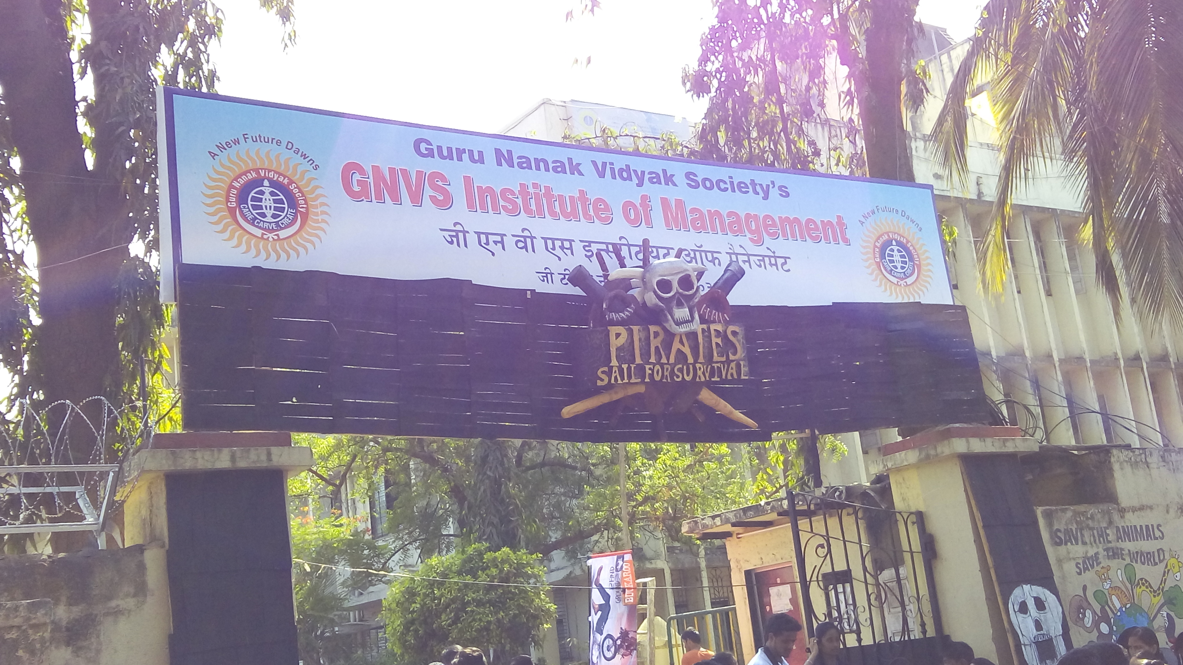 Main entrance of Guru Nanak College (GTB nagar) Mumbai during Zeal '17